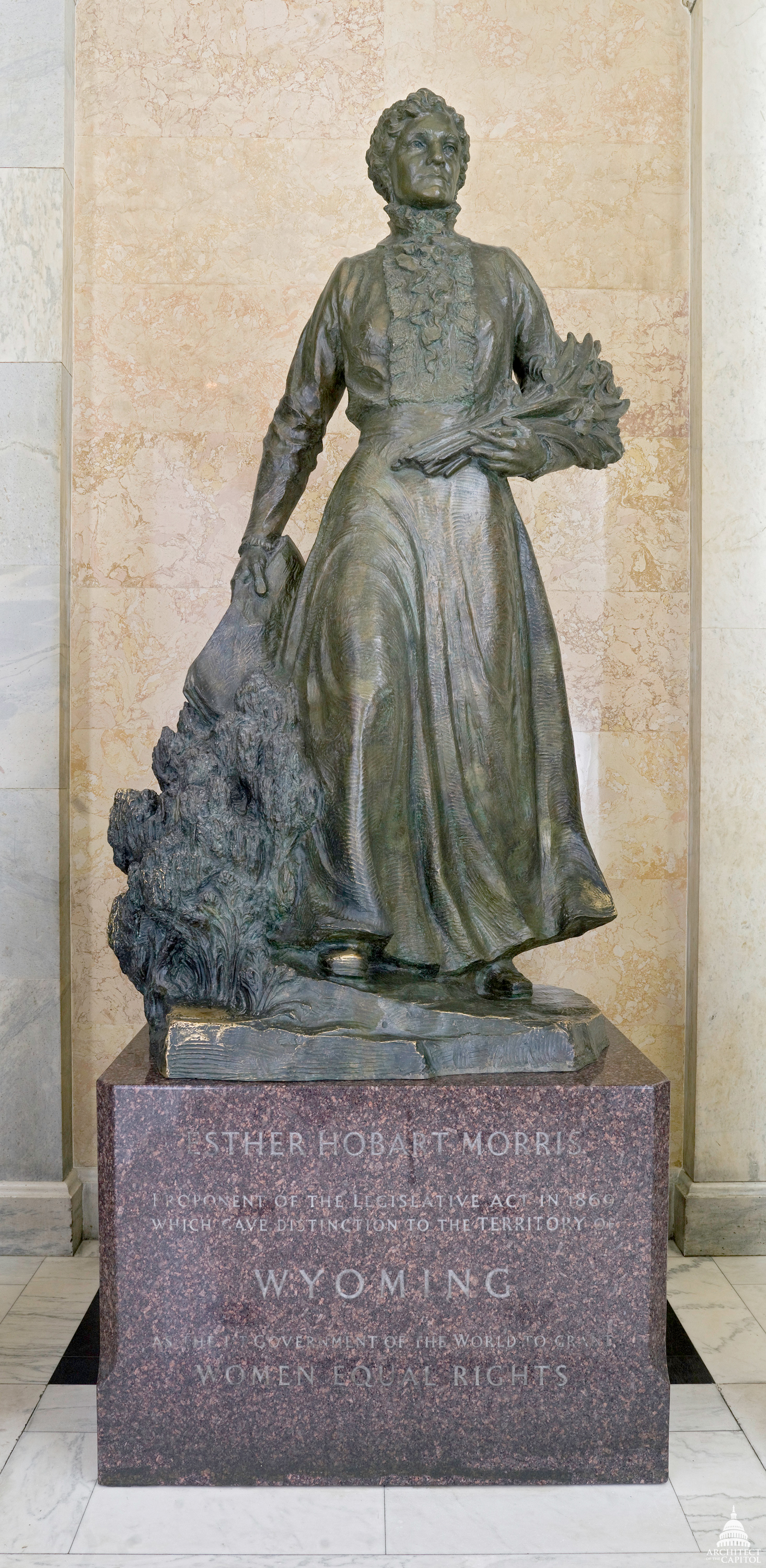 Esther Hobart Morris (1814-1902) Wyoming Bronze by Avard Fairbanks Given in 1960 Hall of Columns U.S. Capitol This official Architect of the Capitol photograph is being made available for educational, scholarly, news or personal purposes (not advertising or any other commercial use). When any of these images is used the photographic credit line should read “Architect of the Capitol.” These images may not be used in any way that would imply endorsement by the Architect of the Capitol or the United States Congress of a product, service or point of view. For more information visit